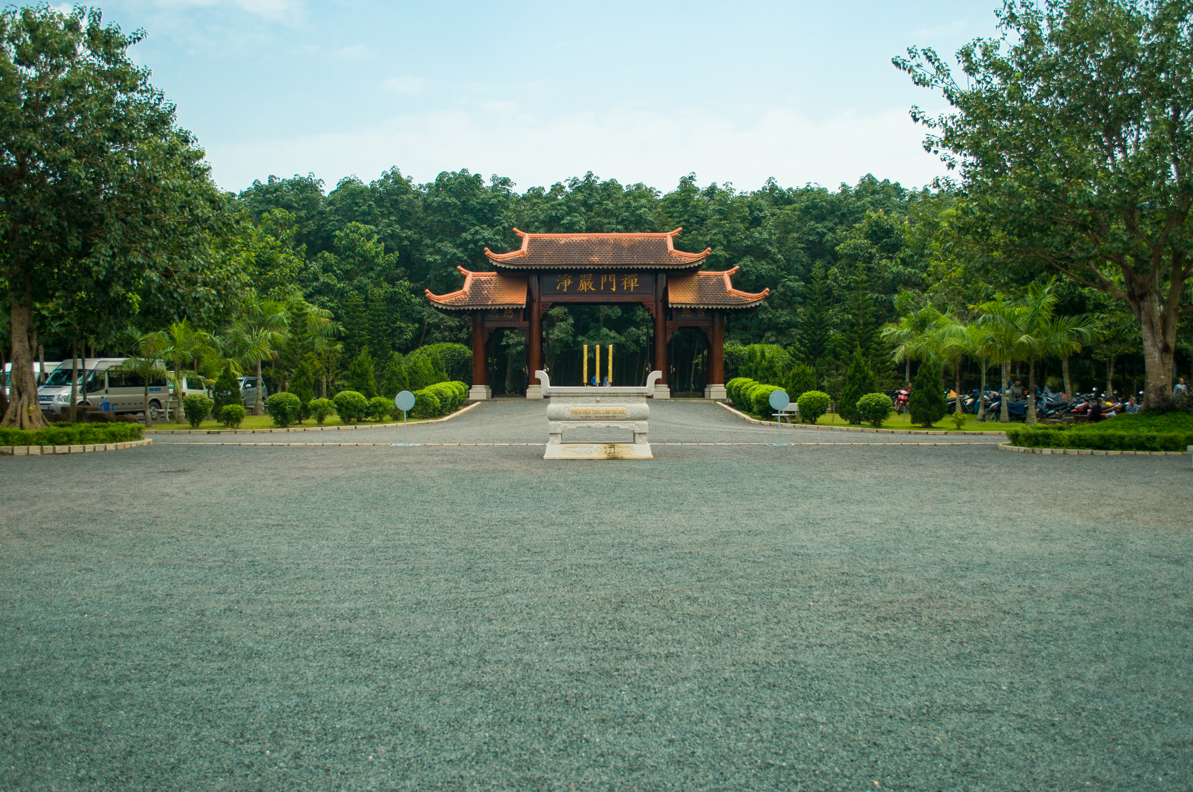 The gate of Truc Lam Tri Duc Zen Monastery